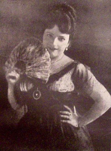 Ida Negri, Italian actress that performed in Argentina.